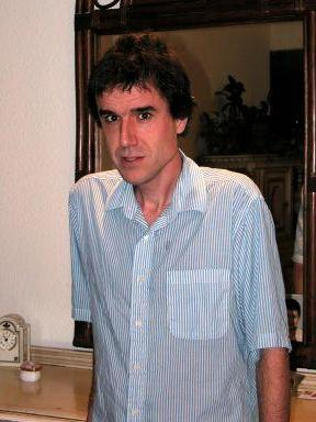 Terry Davis circa 2000